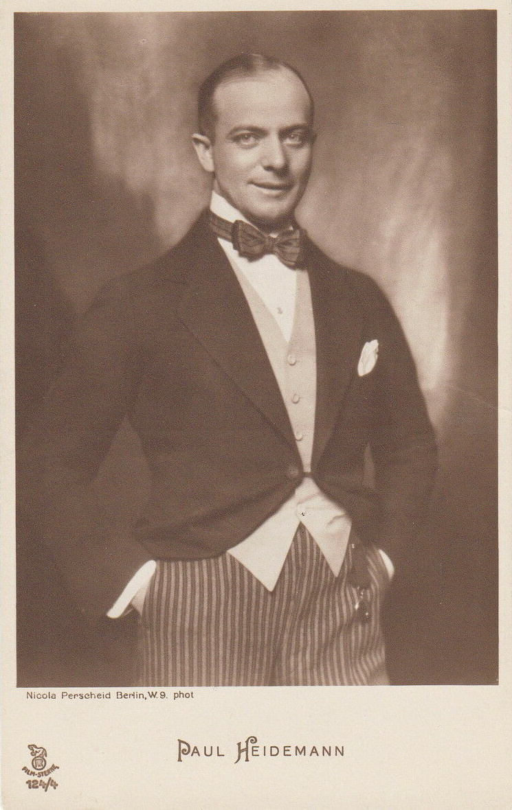 Portrait postcard of German actor and film producer Paul Heidemann (1884–1968) by Nicola Perscheid.